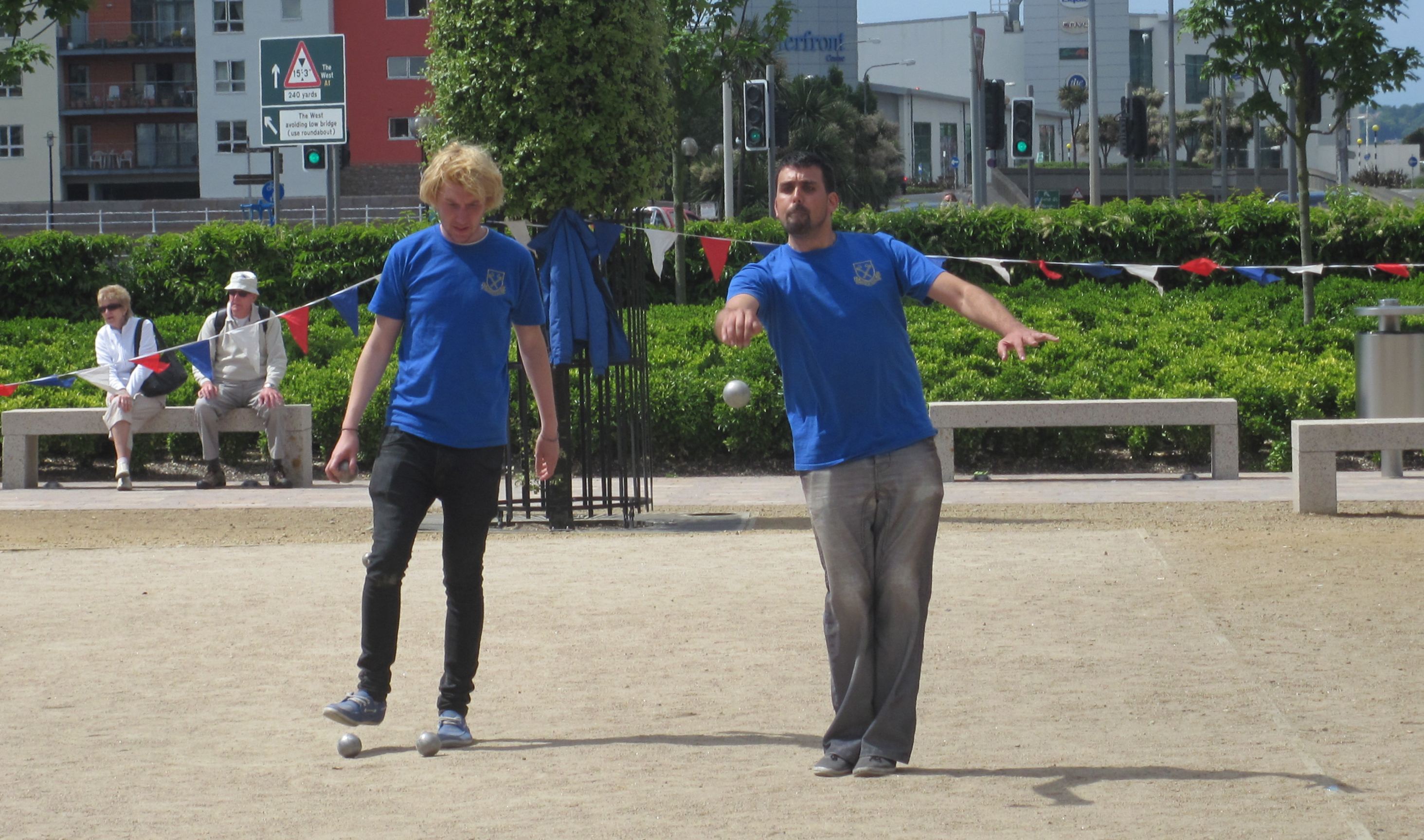 Pétanque competition between twin towns Saint Helier and Avranches, hosted in Saint Helier, Jersey, May 2011